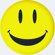 ngiti